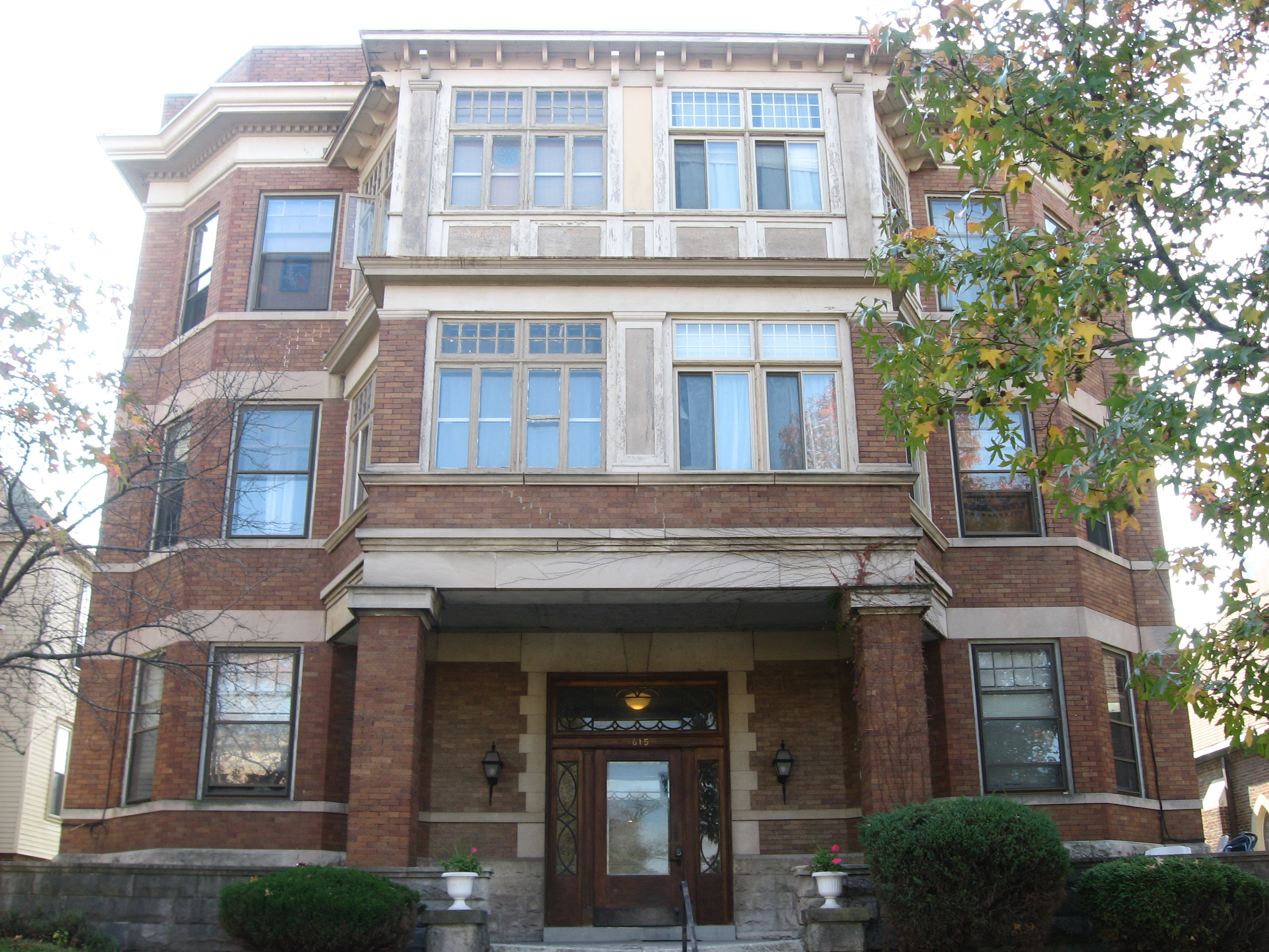 Front of the Marian Apartments, located at 615 North Street in Lafayette, Indiana, United States. Built in 1907, it is listed on the National Register of Historic Places.